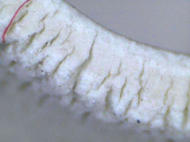 Side view of cracks in a porous rubber band. The band was bended slightly to emphasize the cracks. The thickness is about 1 mm. In the top-left corner a red fiber is visible, which sticks to the rubber band.